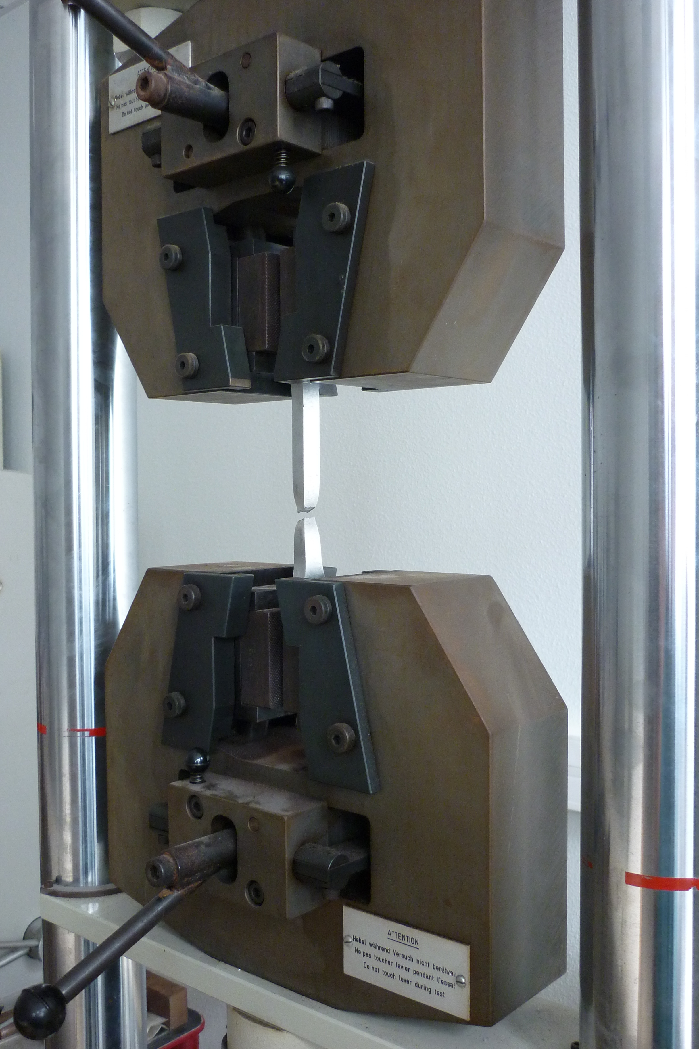 Flat broken tensile sample in the self-tight jaws of a Walter+Bai testing machine.